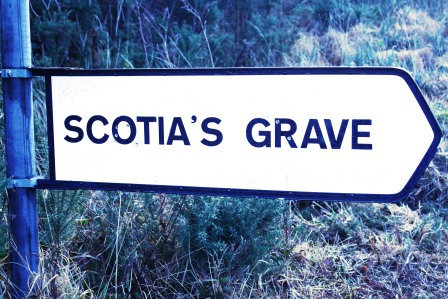 Photograph of signpost on the roadside, outside Tralee in Co. Kerry, Ireland